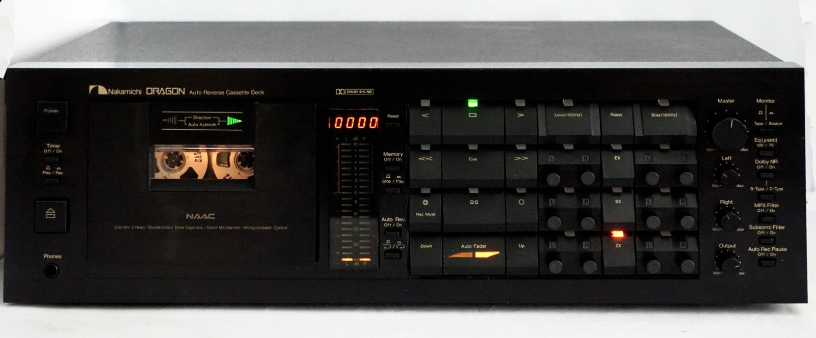 Nakamichi Dragon Vintage Cassette Deck